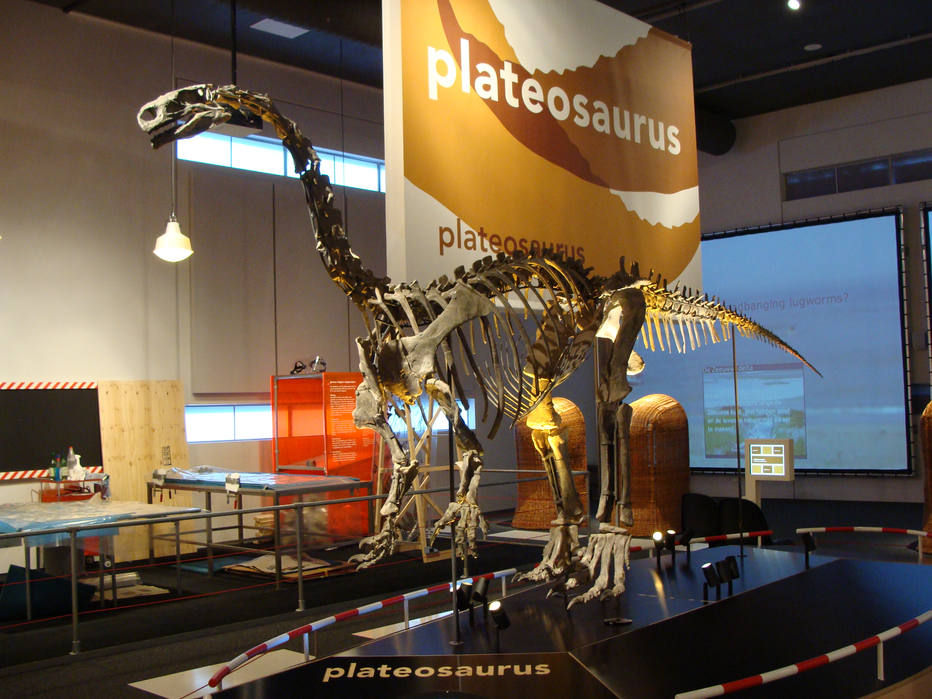 Plateosaurus displayed in Naturalis, Leiden. This is the "Monica" exemplar, excavated at Frick in 2007 in a building constrution pit